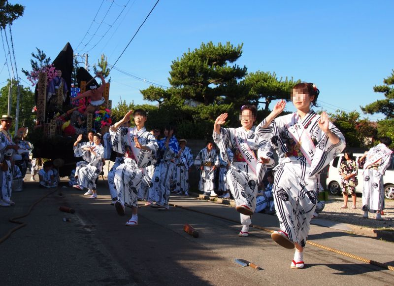 Tsuchizaki-Shinmeisha-Shrine Annual Celebration And The Float Festival (Akita City, Japan)